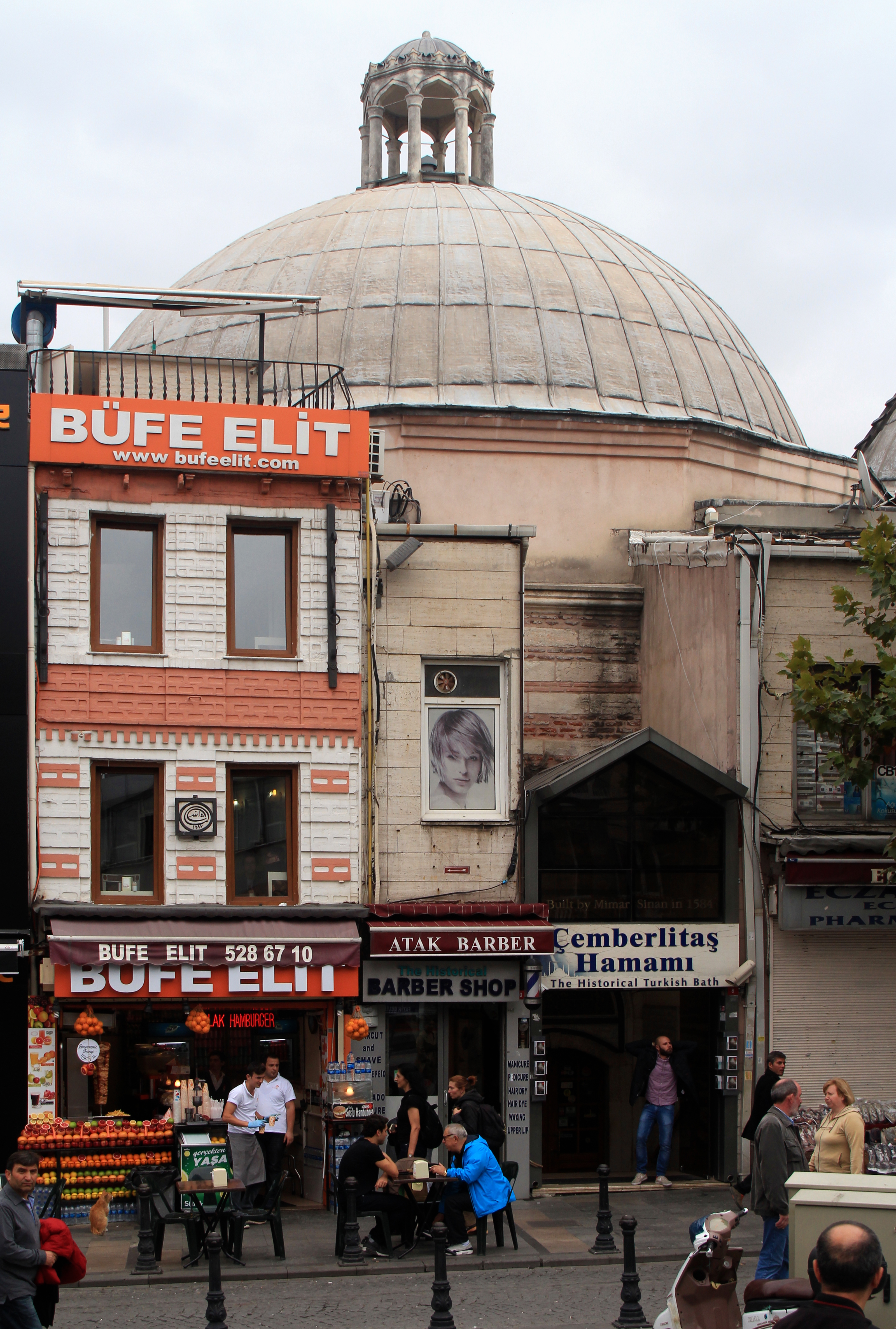 Street view of the hamam's main entrance.